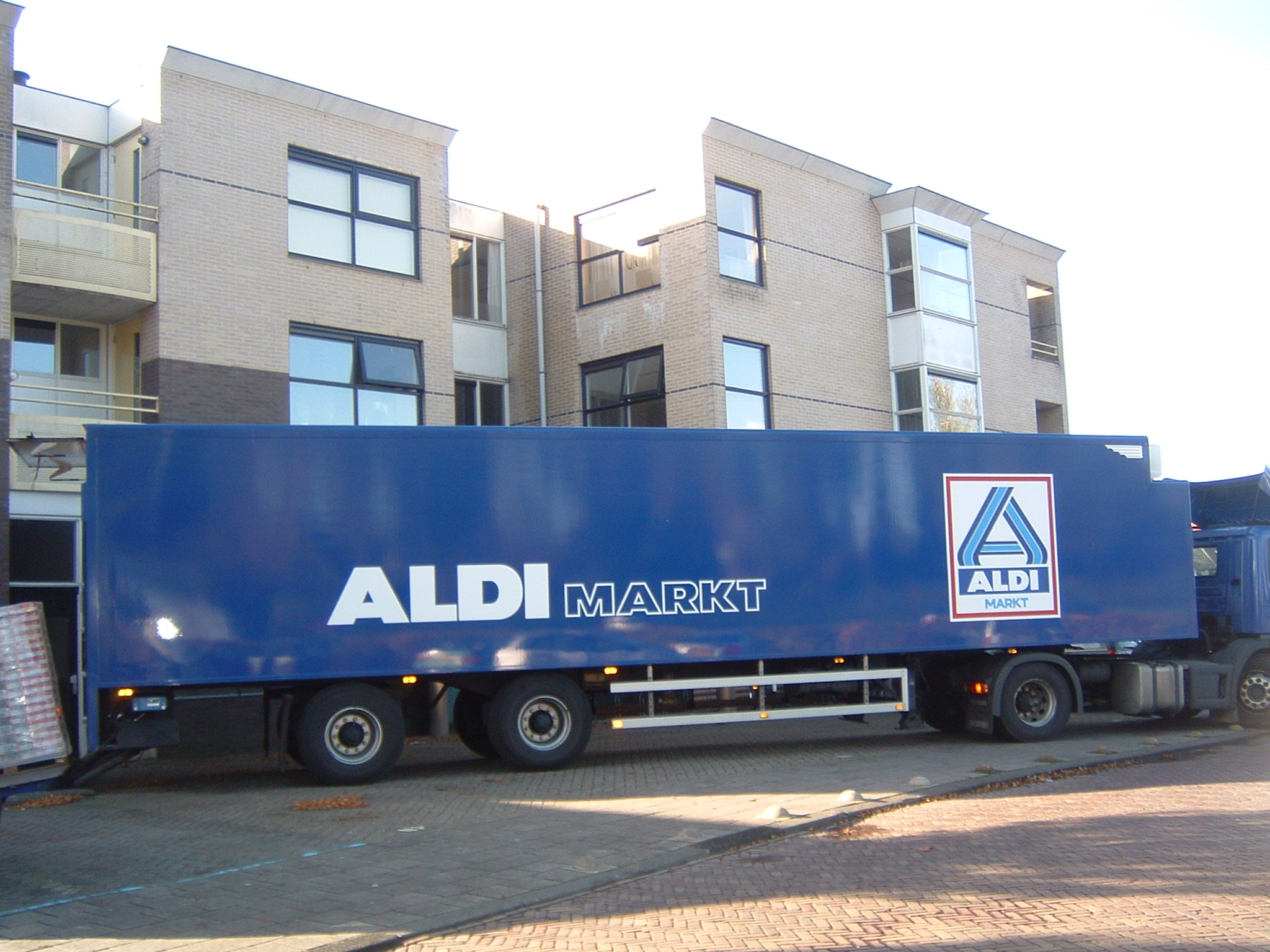 Own photograph of an unloading Aldi truck.